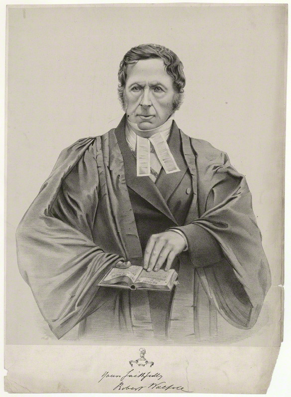 Lithograph of Rev. Robert Walpole (1781–1856), English cleric and classical scholar.